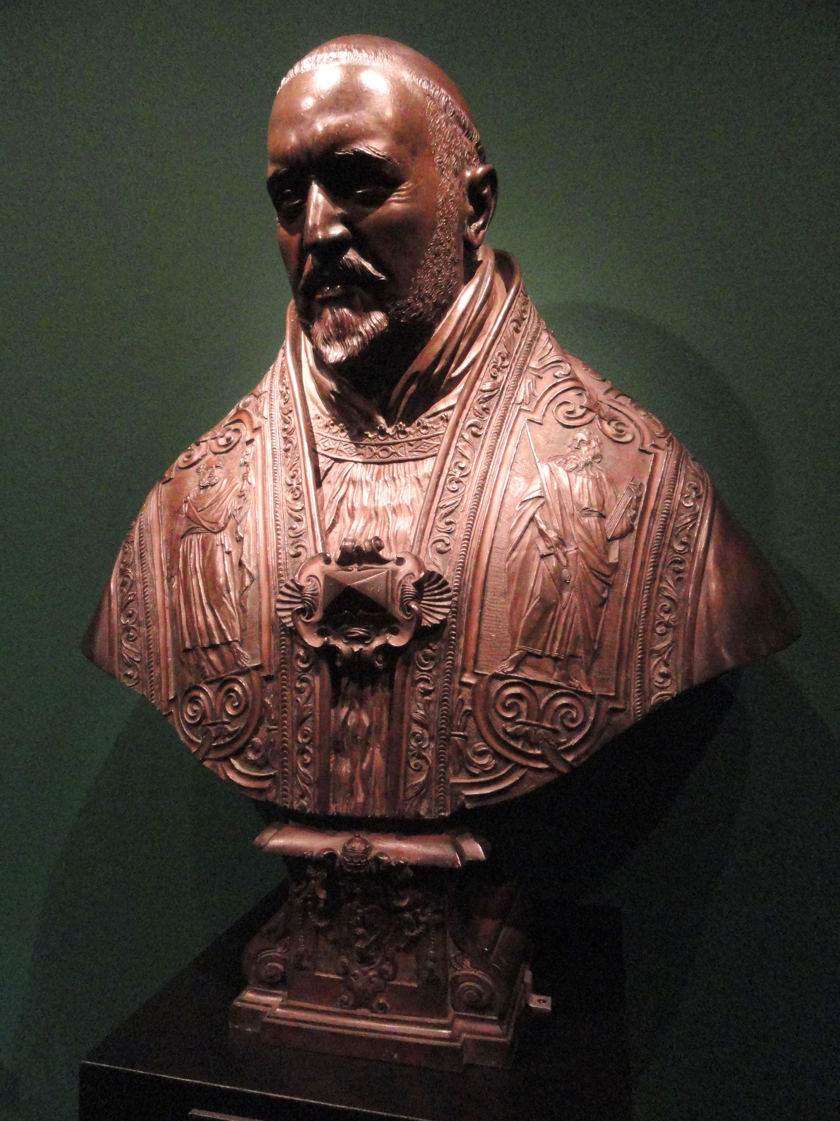 Exhibit in the Ny Carlsberg Glyptotek, Dantes Plads 7, Copenhagen, Denmark. The museum permitted photography without restriction. This artwork is now in the public domain because the artist died more than 70 years ago.